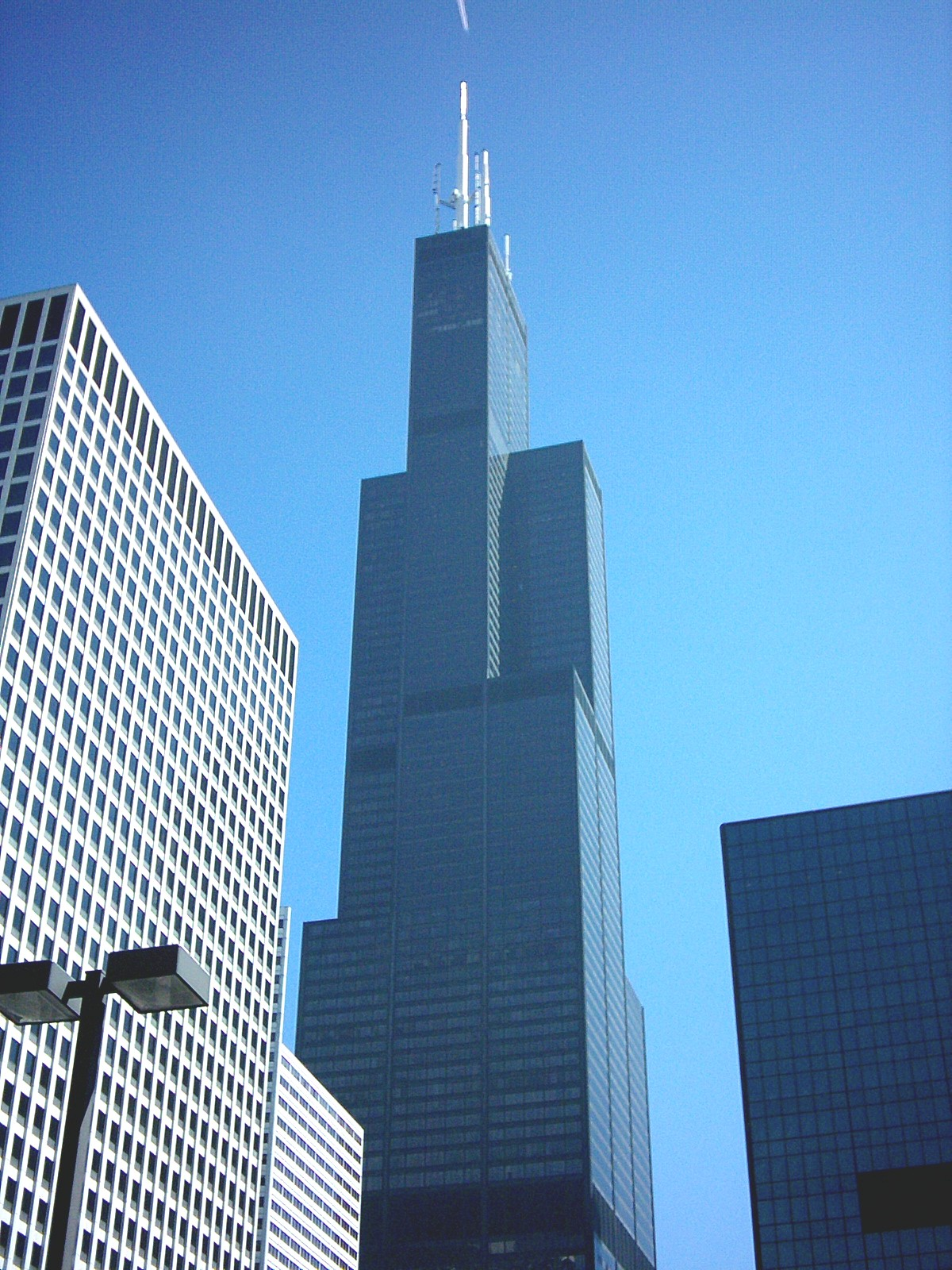 Sears Tower, April 2006